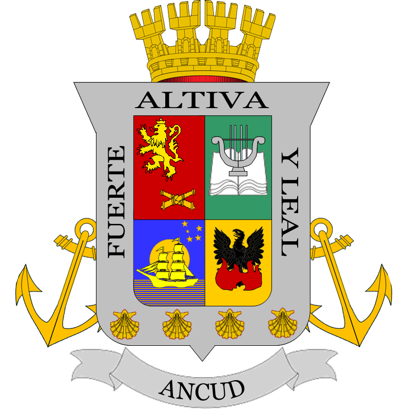 Wrong version of the coat of arms of Ancud commune, Chile.